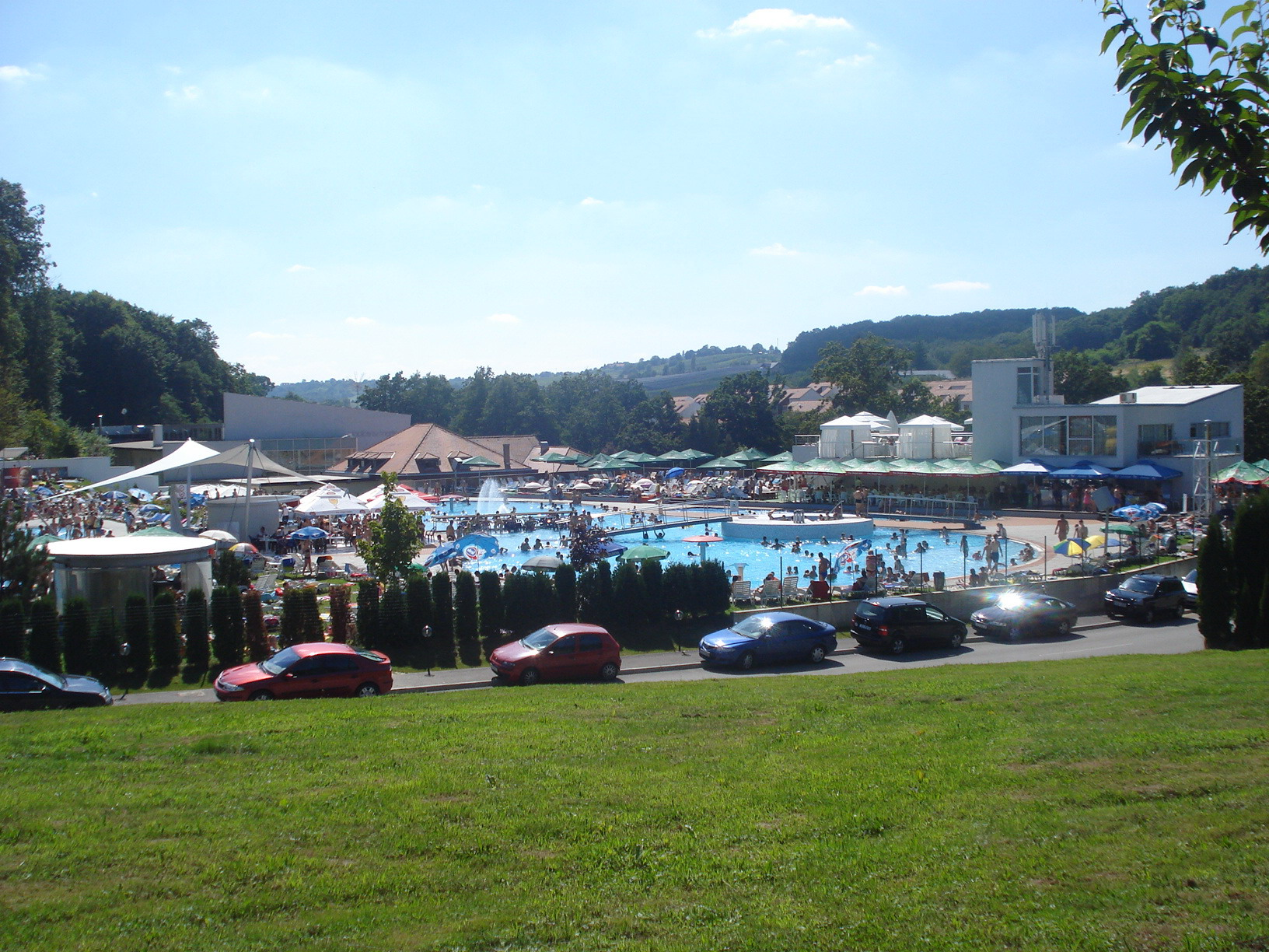 Vučkovec (Croatia) - spa complex 2010 (north view)